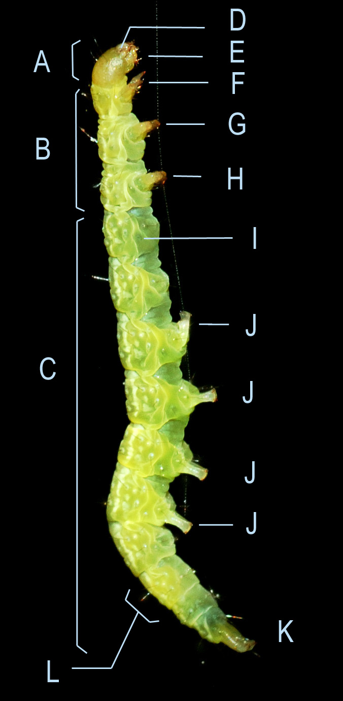 Caterpillar with numbersA - headB - breast / the three thoracic segmentsC - abdomenD - eye / ocelliE - mouthF - first thoracic legG - second thoracic legH - third thoracic legI - spiracle / stigmaJ - abdominal prolegsK - anal and analprolegL - one segment